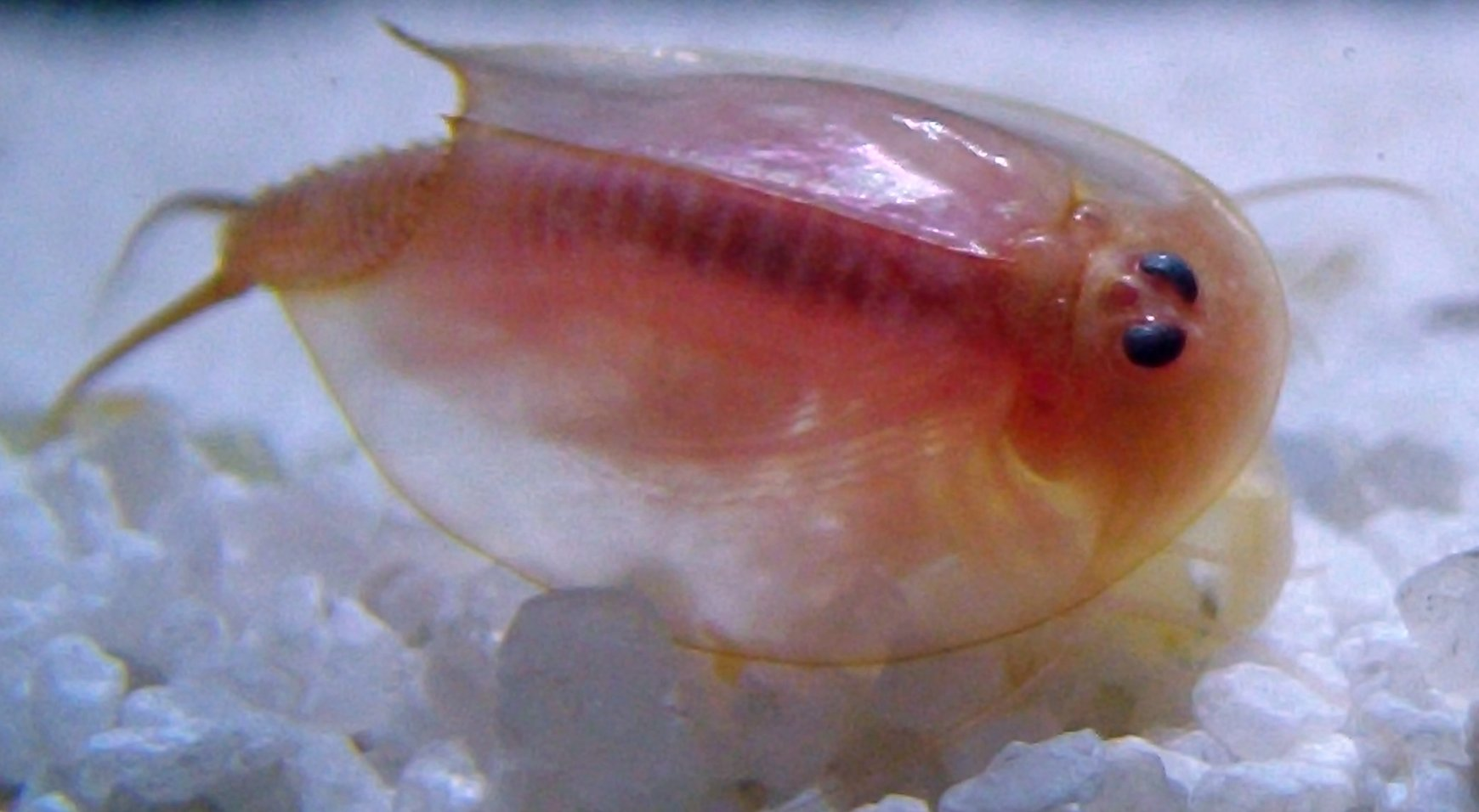 Triops cancriformis Beni-Kabuto Ebi Albino ultra closeup feeding on a piece of rehydrated dried shrimp. This specimen is only about 3/4 of an inch (2 cm) long. It was from a batch of eggs put in Arrowhead Mountain spring water on May 22, 2015. The picture was taken on June 1, 2015.